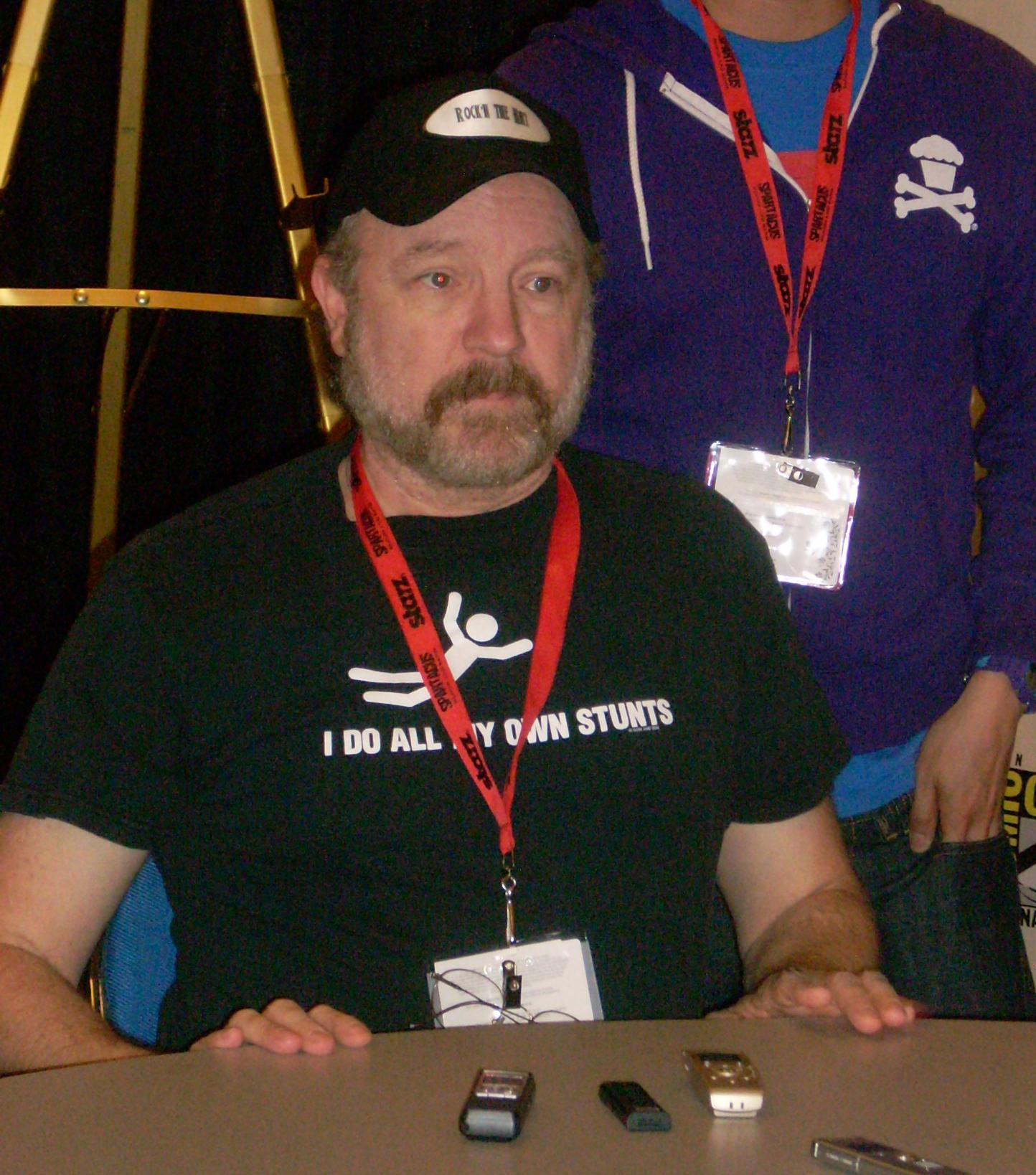 Actor Jim Beaver – Comic-Con 2009 - "Supernatural" Press Room - San Diego - July 26, 2009.